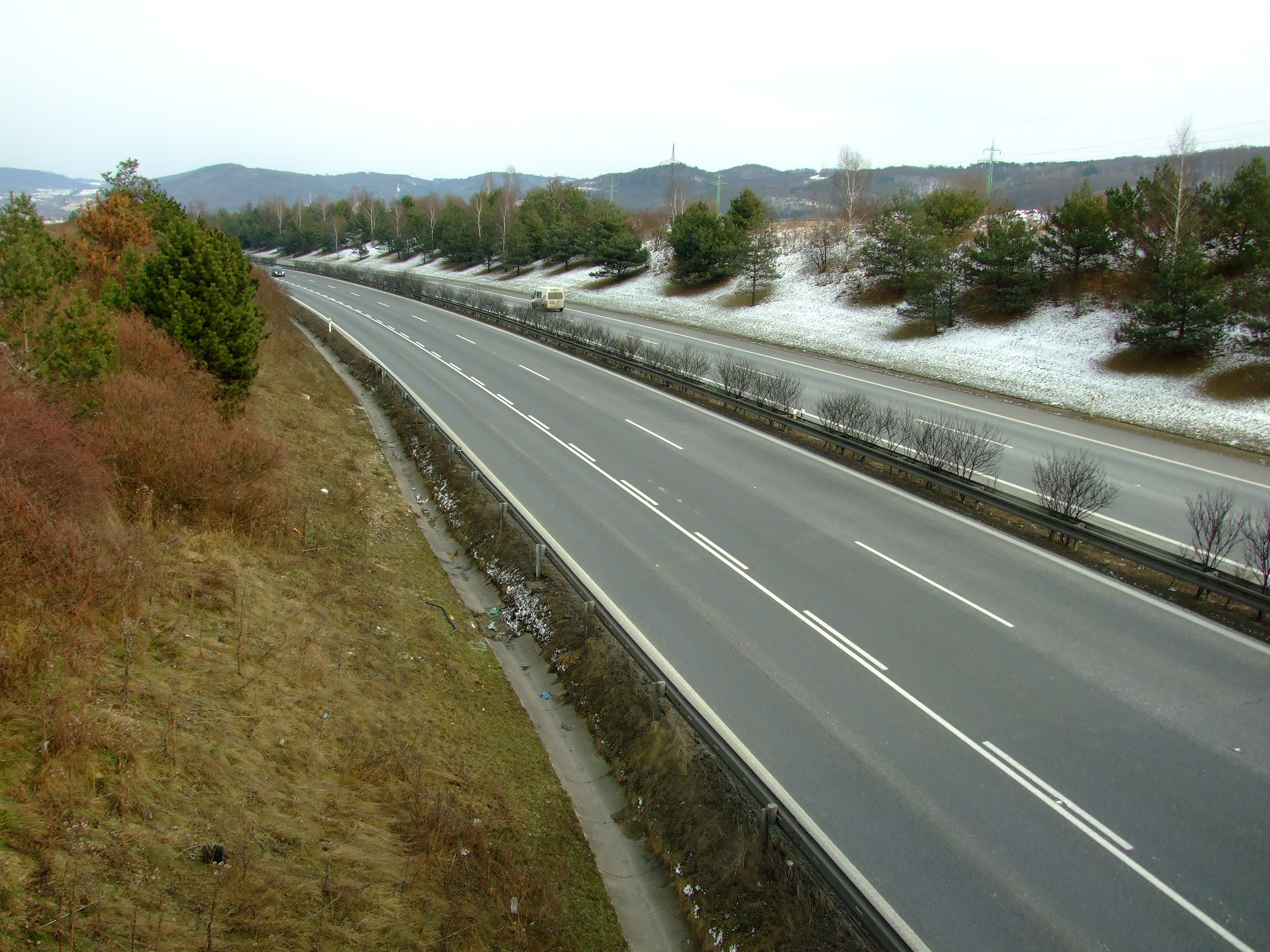 Highway D5 near Vráž u Berouna, Beroun District, Central Bohemian Region, CZhelp